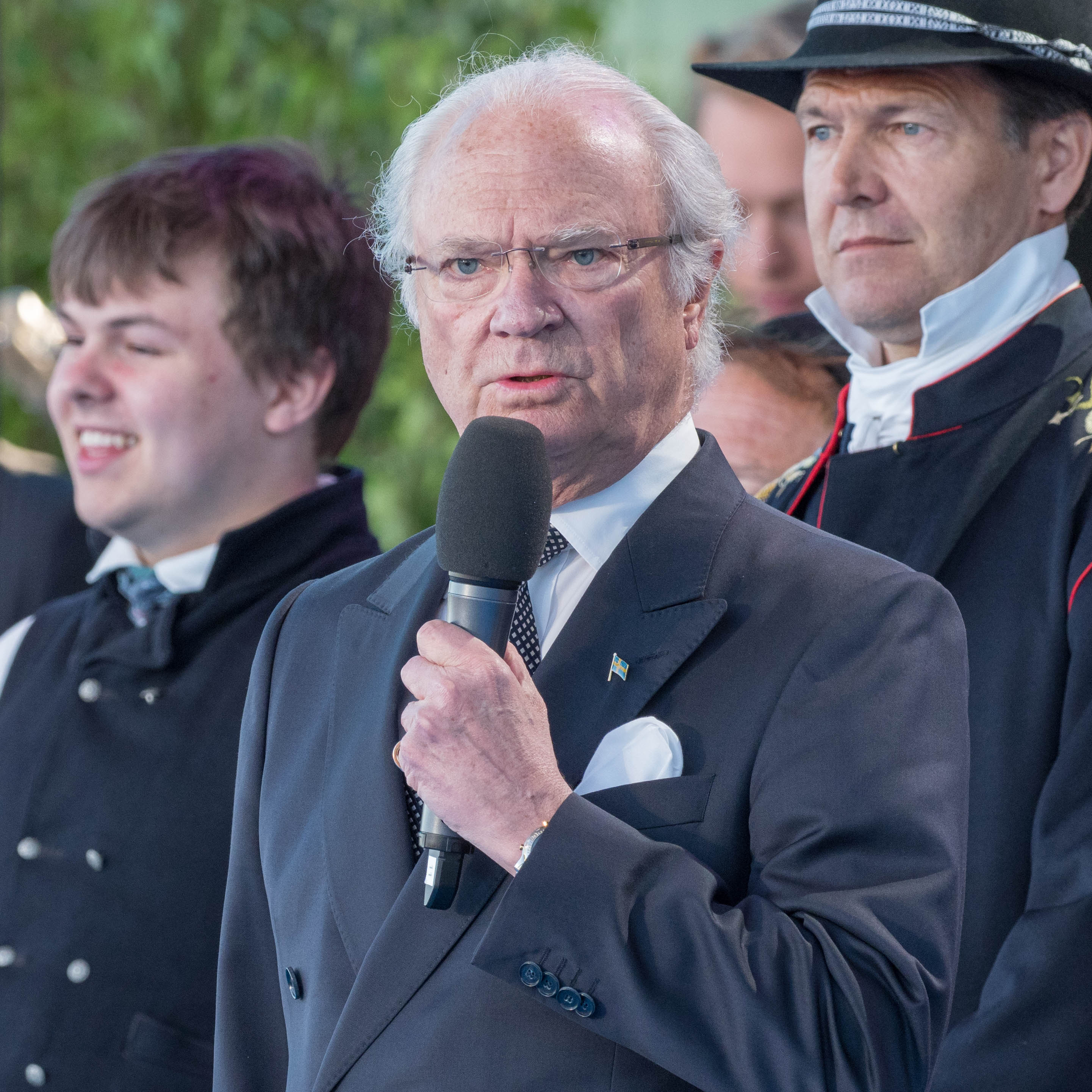 King Carl XVI Gustaf